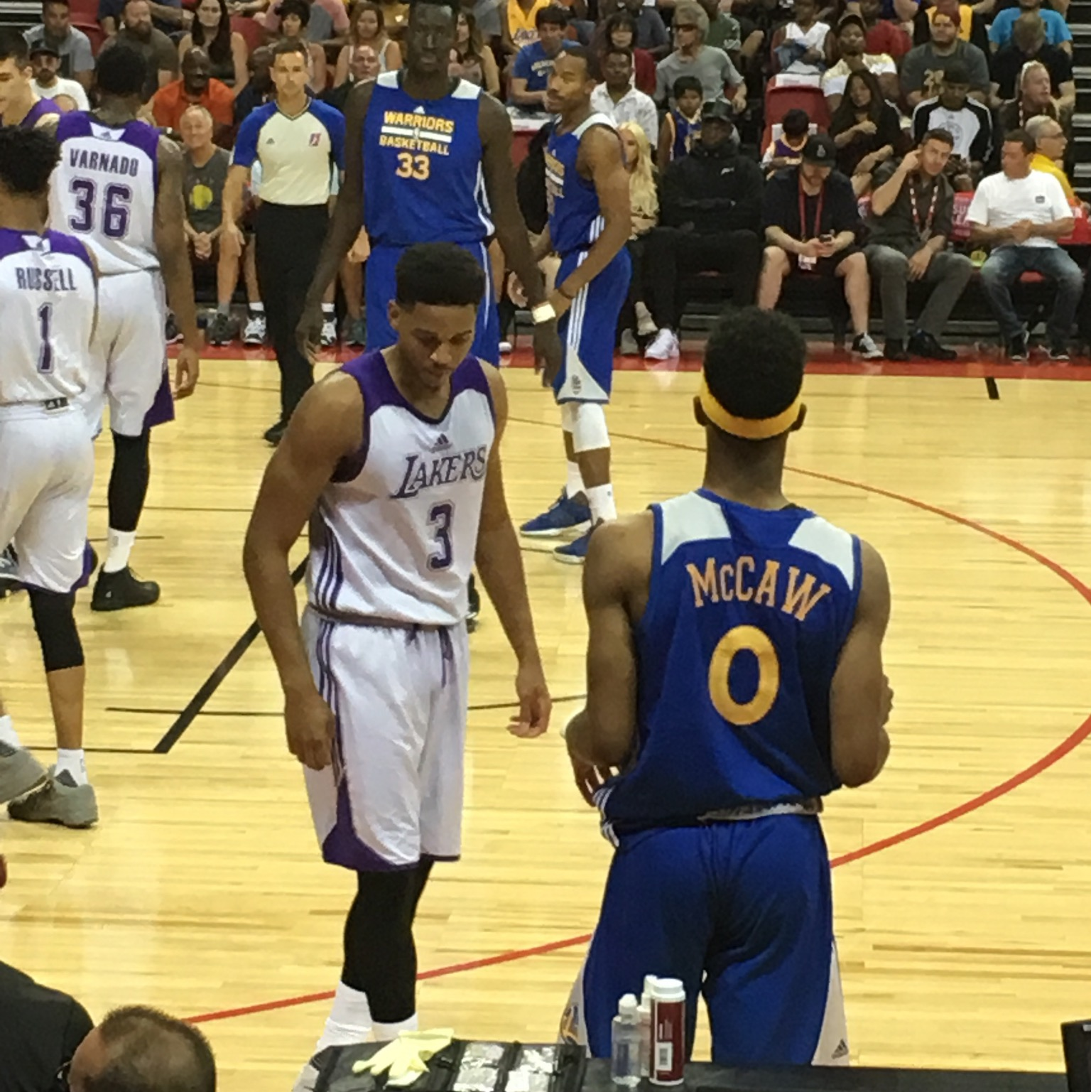 Patrick McCaw in Las Vegas during the 2016 NBA Summer League, Warriors vs Lakers, 11 July 2016